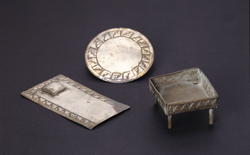 Chan Chan pieces. Larco Museum Collection.